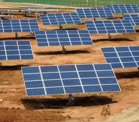 Suntrix dual axis tracker in Siziwangqi